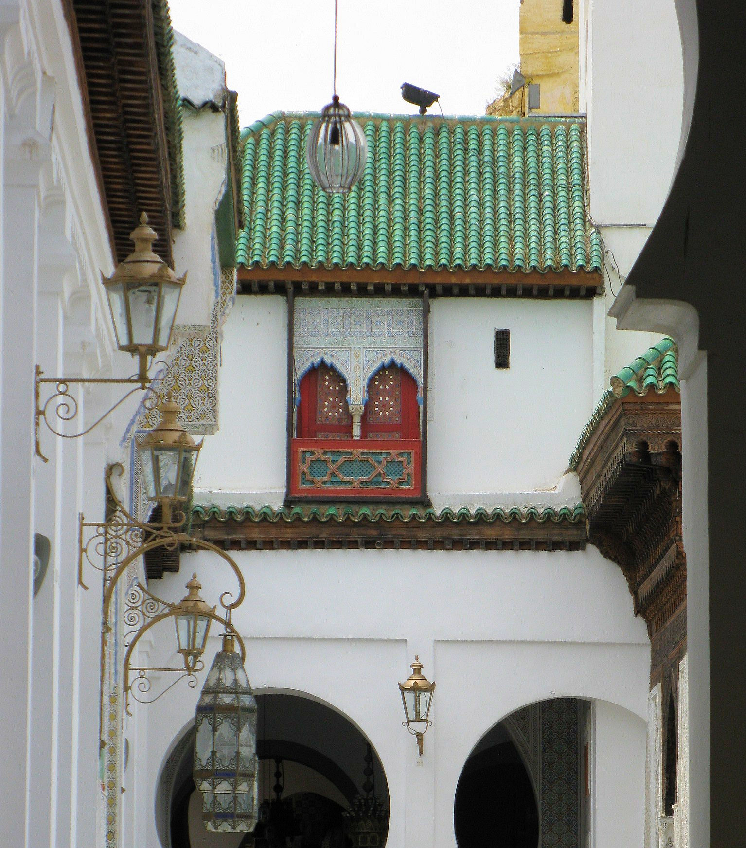 Dar al-Muwaqqit (house of the timekeeper), al-Qarawiyyin Mosque. It is located on the southern side of the minaret, just above the gallery around the courtyard.